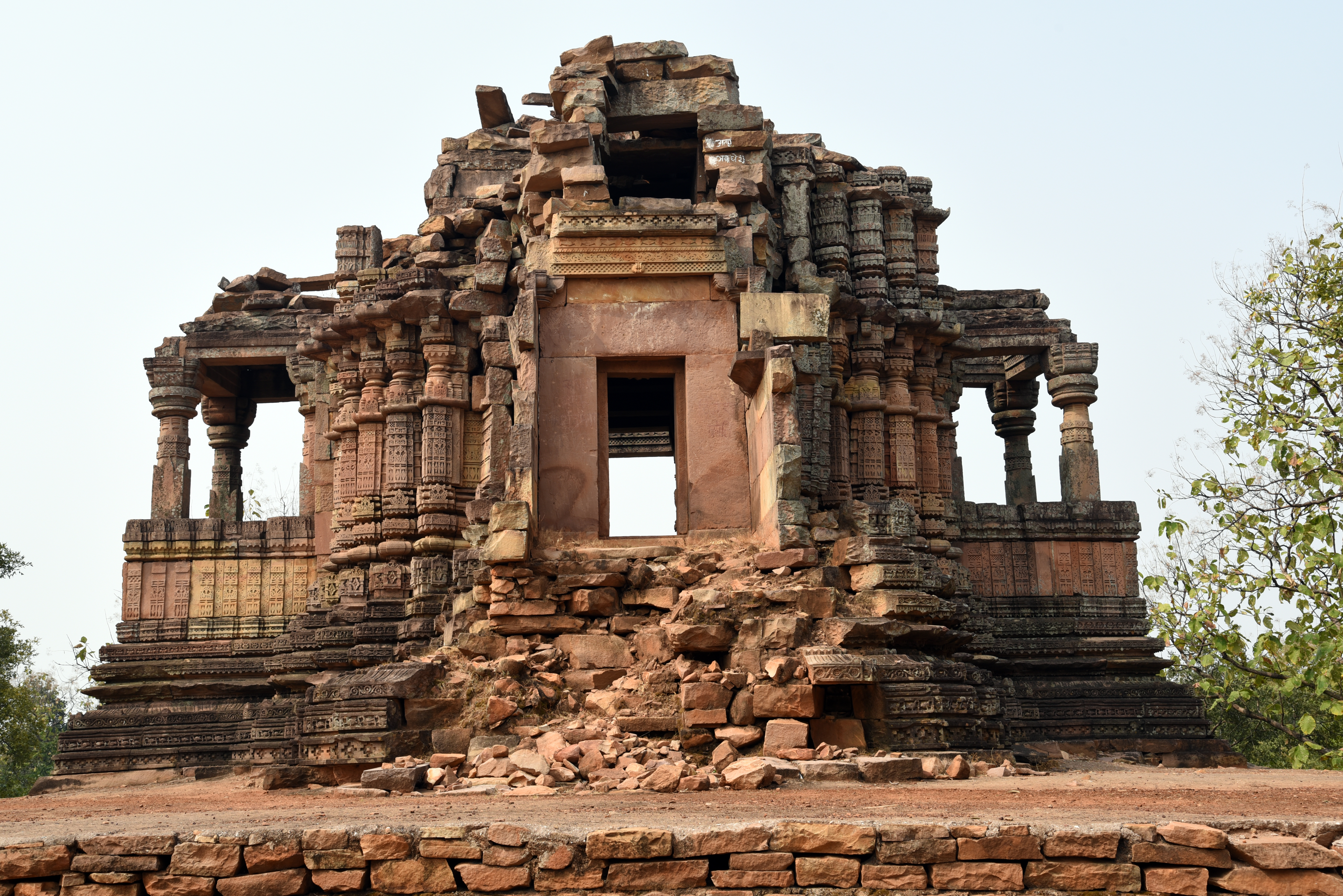 Ajaigarh 4 sides temple 10 century CE